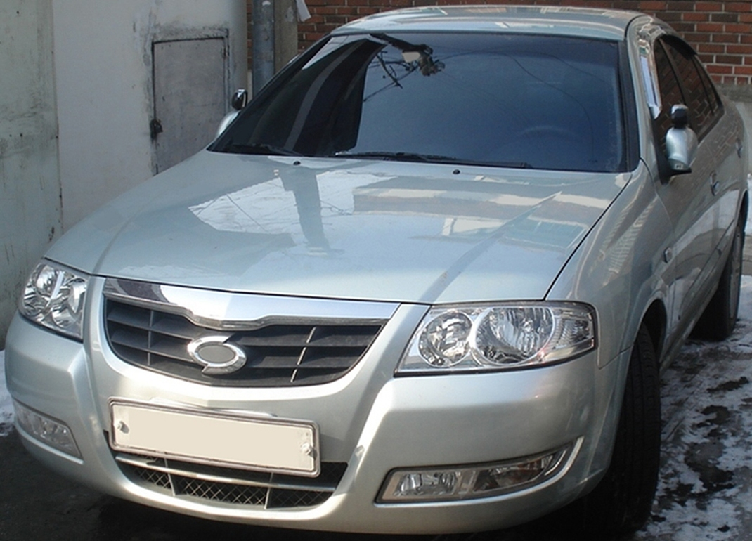 Renault Samsung SM3 New Generation